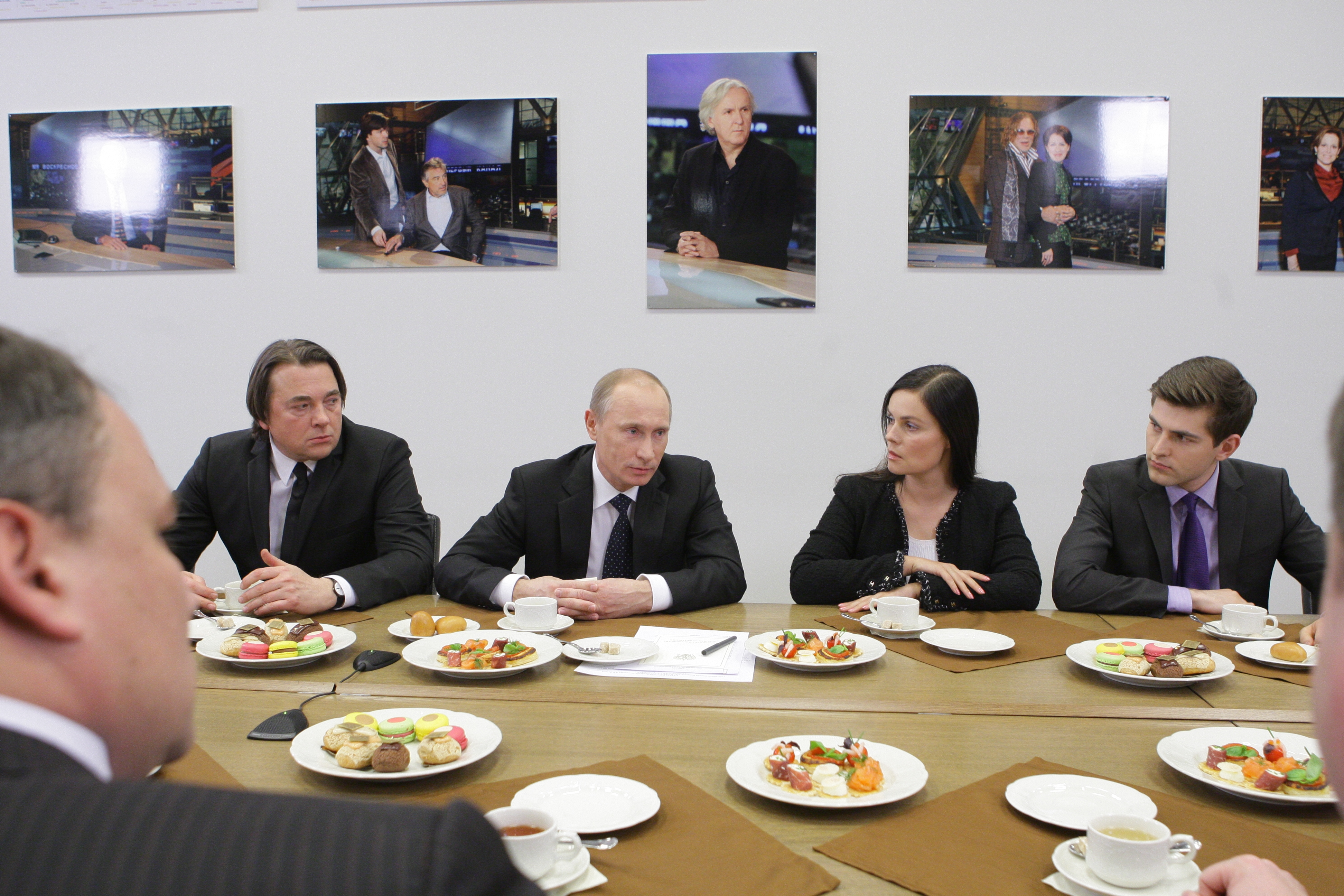 Late last night, Prime Minister Vladimir Putin met with Channel One’s creative staff